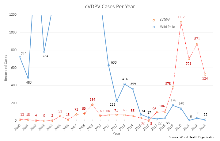 Chart showing number of circulating Vaccine Derived Polio Virus (cVDPV) cases per year since 2000. Number of wild poliovirus cases provided as reference